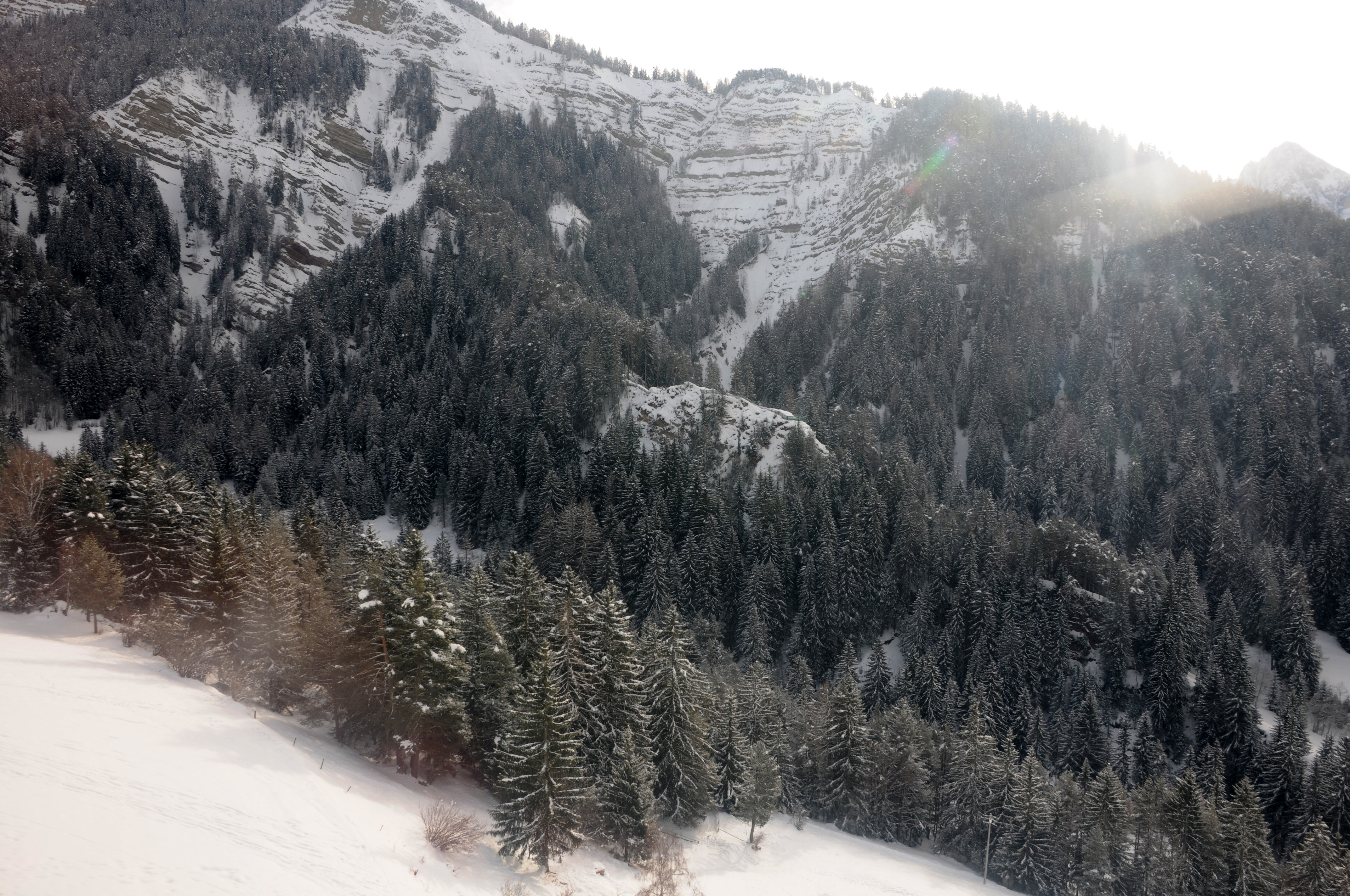 The Col da Pincan with the site of the Castel Stetteneck in Urtijei, the mount Balest in the back